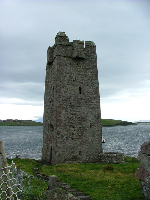 Grace O'Mally's Tower